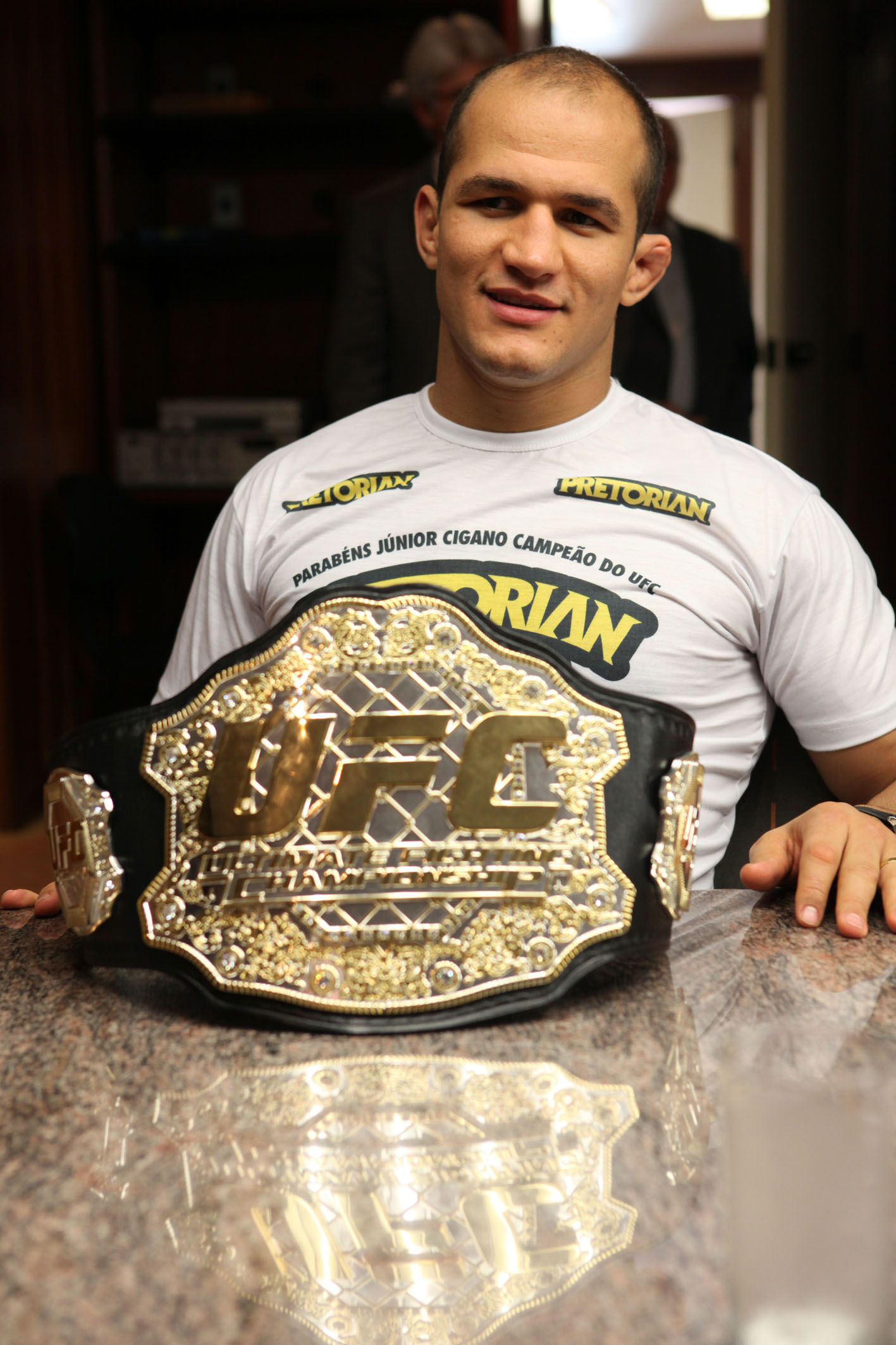 Junior Dos Santos with Title Belt